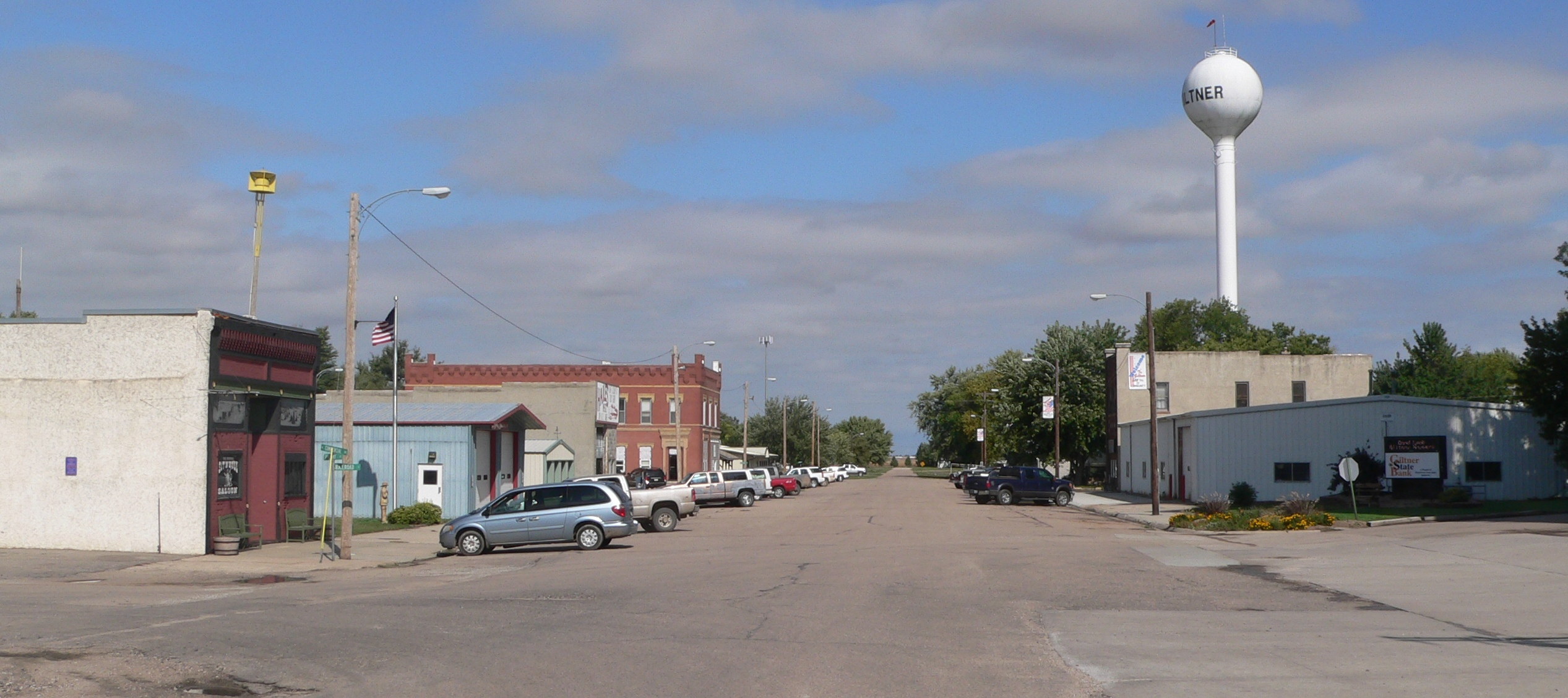 Downtown Giltner, Nebraska: Commercial Avenue, looking north from about Railroad Street.